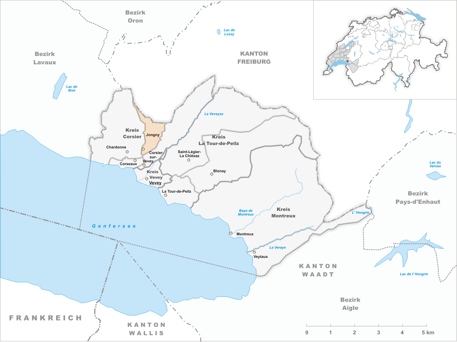 Municipality Jongny